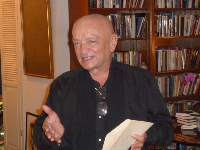 Kenneth J. Atchity